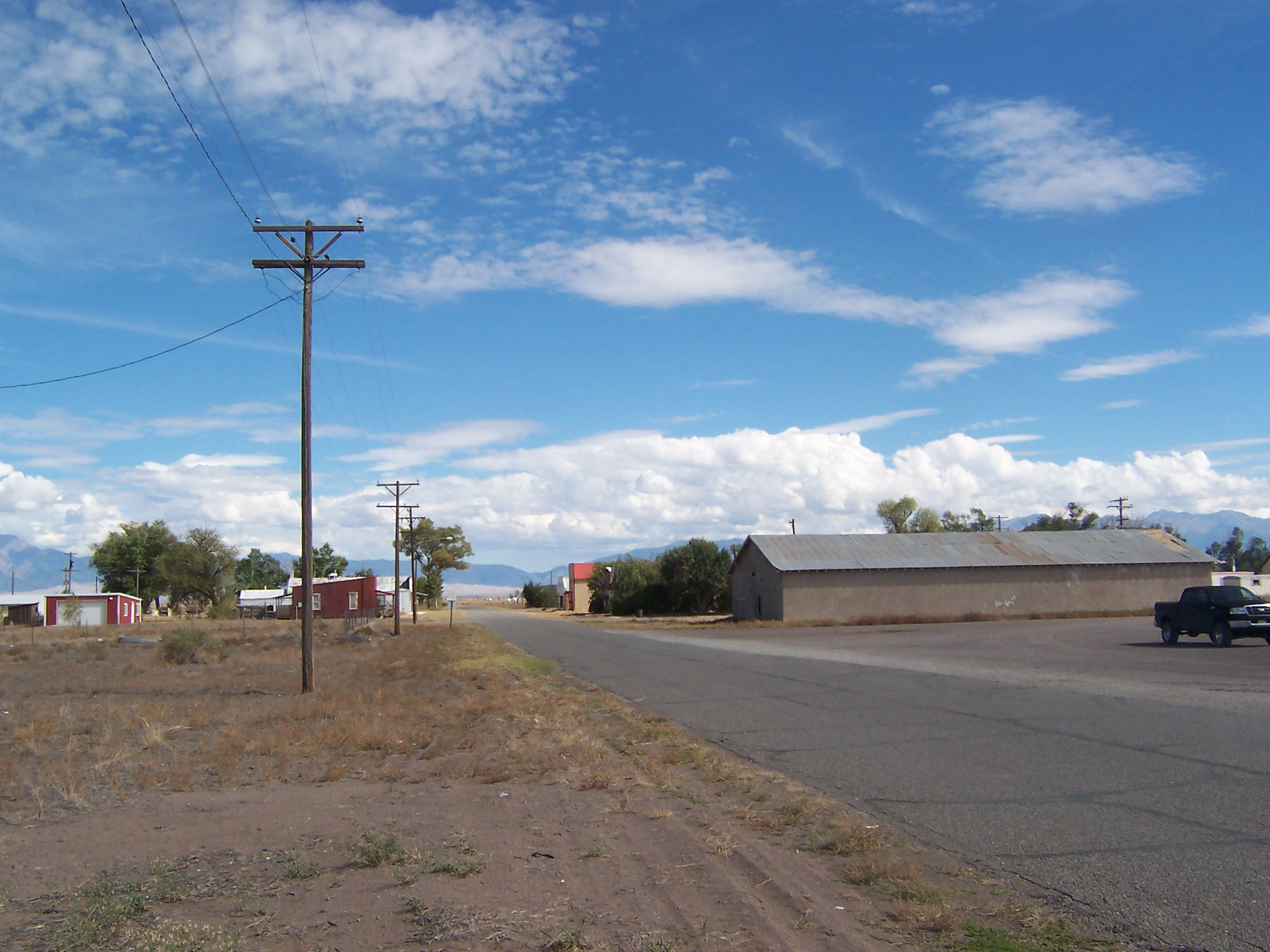 Main Street Hooper, Colorado looking east from Colorado State Highway 17.